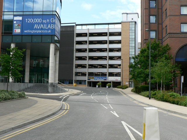 Wellington Place, Leeds. Looking towards Wellington Place car park. A corner of the Crowne Plaza hotel at the right.